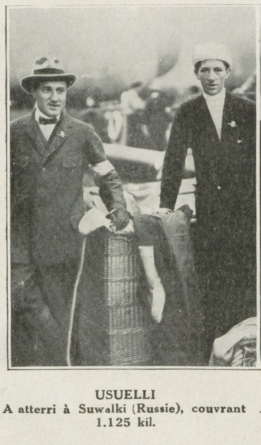 Gordon Bennett Cup in ballooning 1912. Italian team.